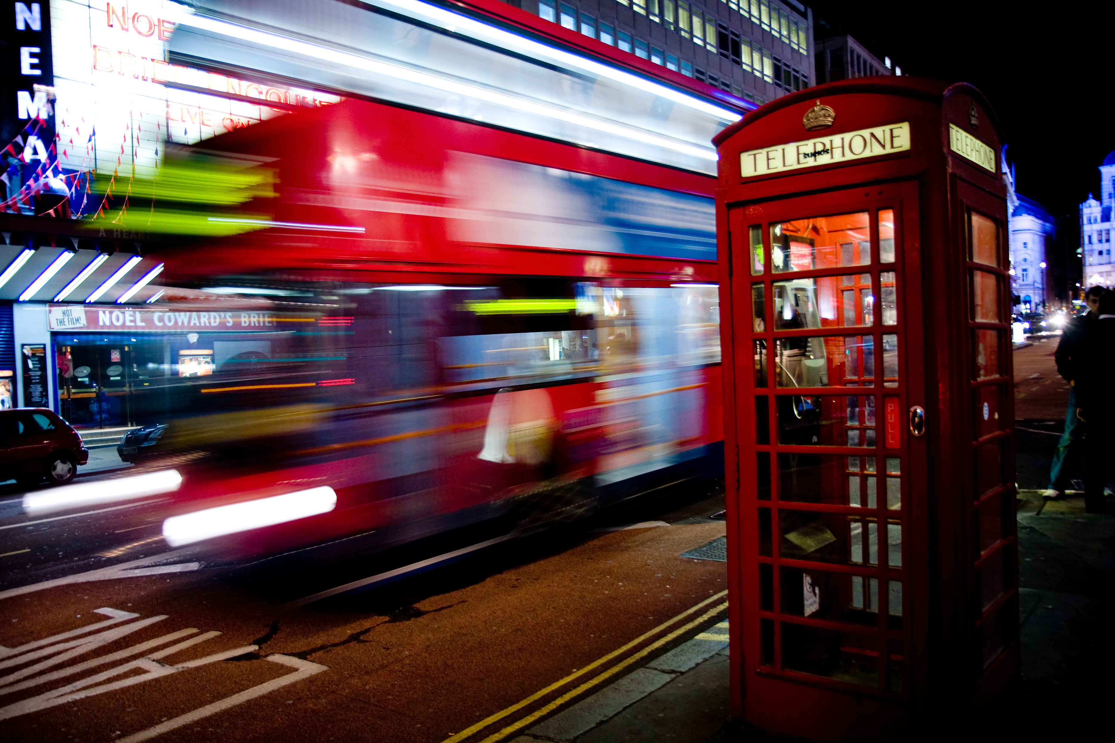 A London bus passes a telephone box on Haymarket, Westminster, London, UK.